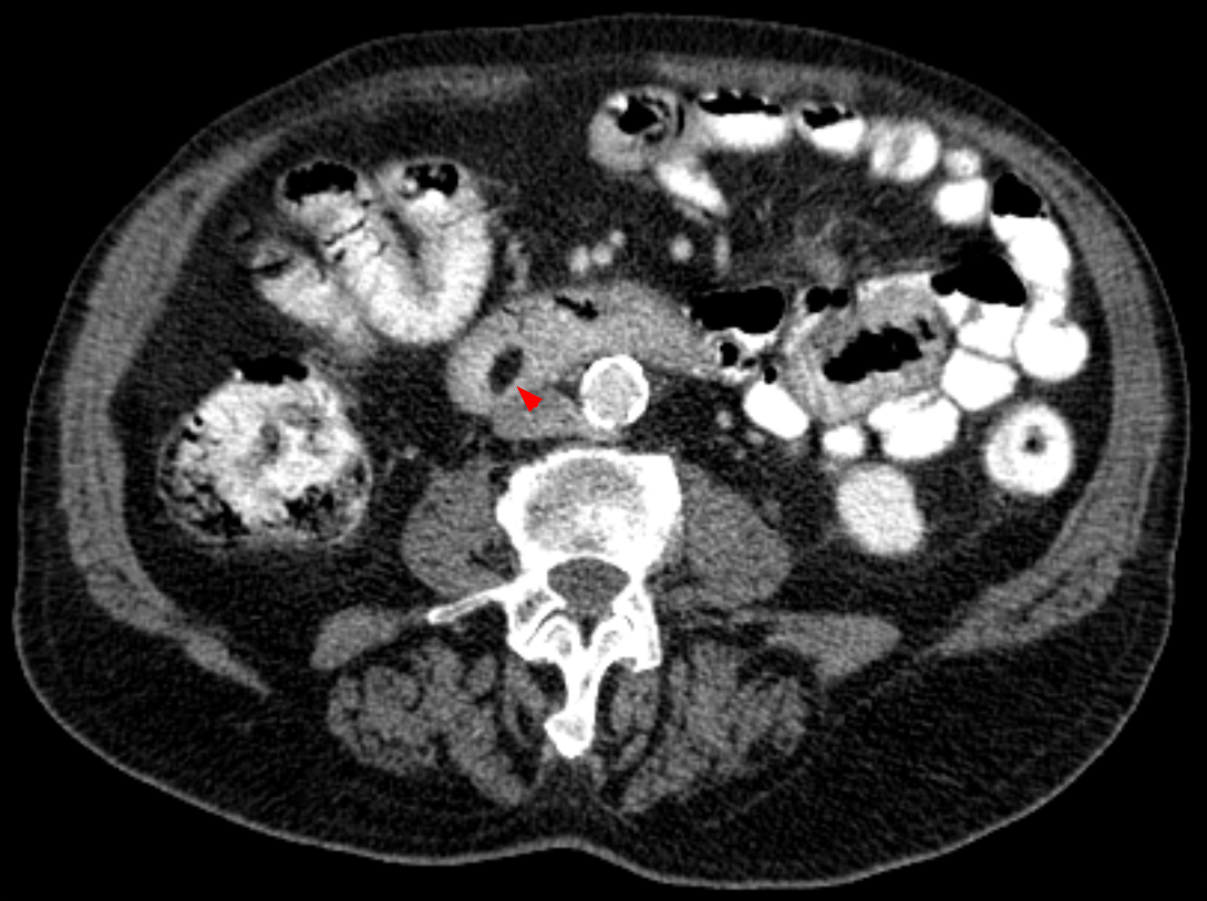 Lipoma of duodenum in CT (arrow).